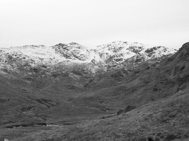 Coire na Baintighearna, 3 km from Inveruglas, Argyll And Bute, Great Britain. Corrie on the eastern side of Ben Vorlich, between the south ridge and the Little Hills. Grazed by sheep.